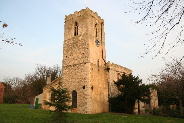 Holy Trinity church, Everton, Notts. Holy Trinity has Norman (possibly Saxon) origins and retains fine tower and chancel arches from this early church. The north arcade is c1190 with some good capitals, plus other Perpendicular additions.